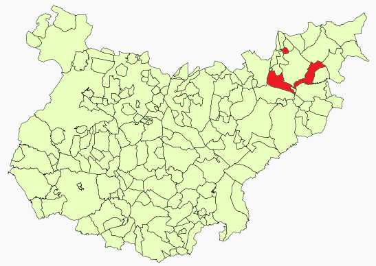 Puebla de Alcocer